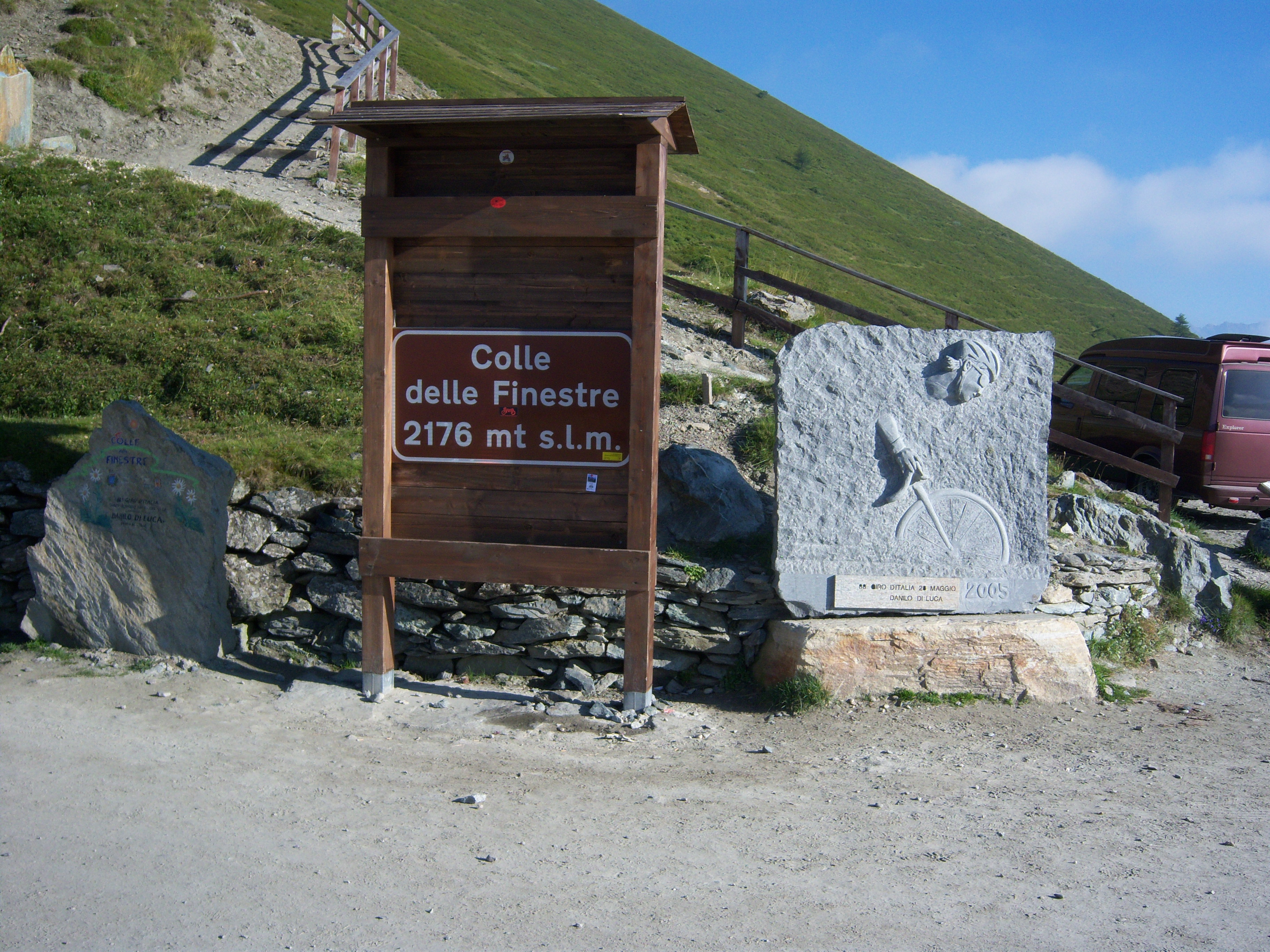 Road sign of the Finestre's pass